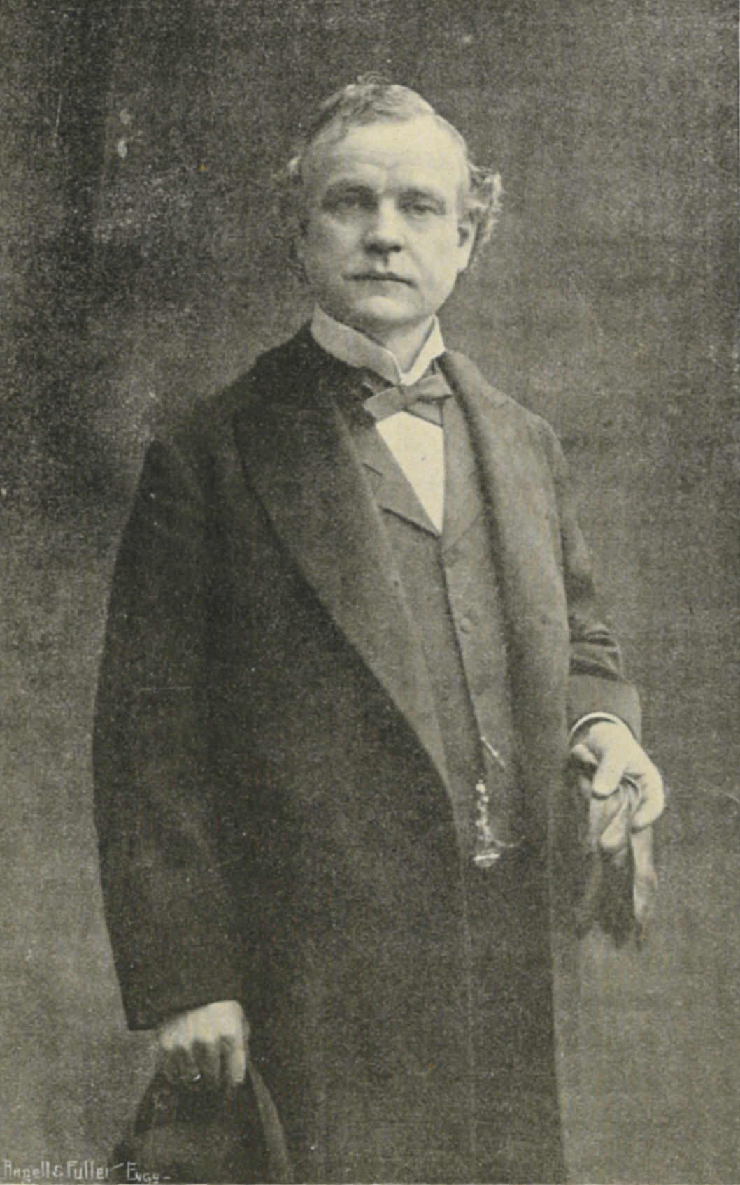 Photo portrait of "Colonel" Alden J. Blethen, publisher of the Seattle Daily Times. Signature beneath portrait appears to say "James Tully Alden J. Blethen".